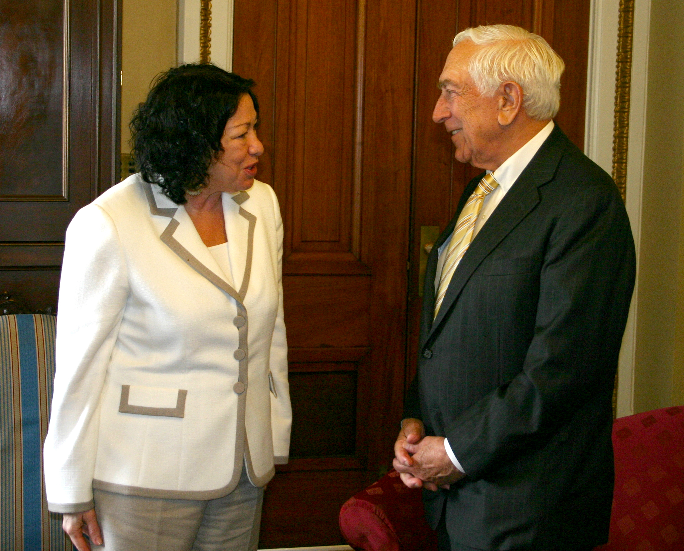 Senator Frank Lautenberg meeting with Supreme Court nominee {Sonia Sotomayor.